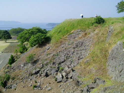 NagoyaC honmaru photo by Aboshi